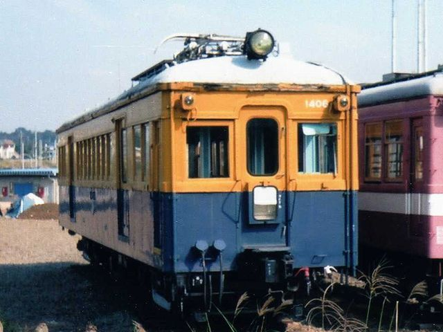 Odakyu Electric Railway Company, EMU Type 1400.